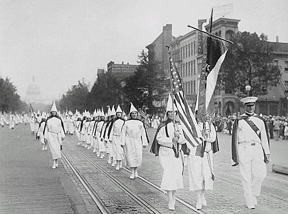 Ku Klux Klan members march down Pennsylvania Avenue in Washington DC 1928 with the Capitol in the background.